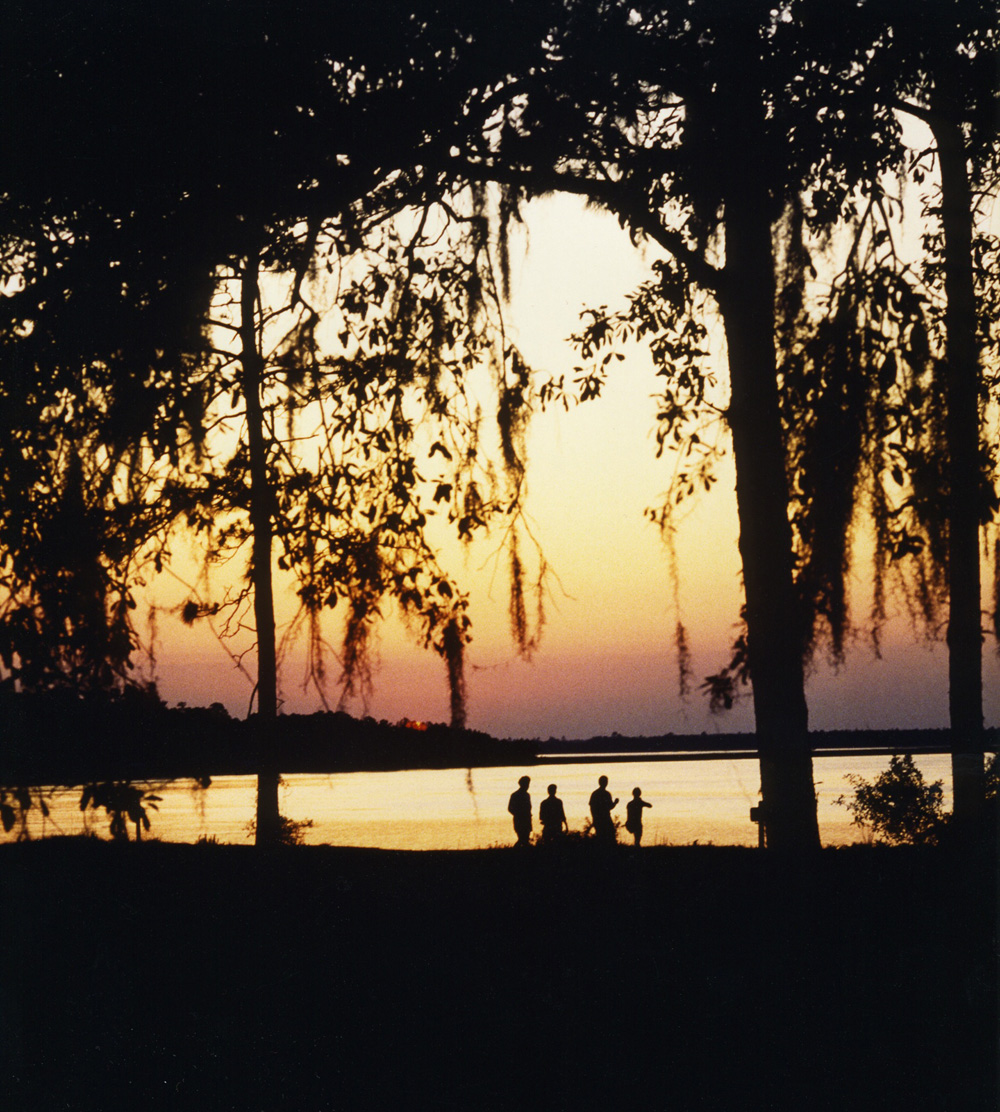 Crooked River State Park, a favorite rendezvous for people going out to Cumberland Island